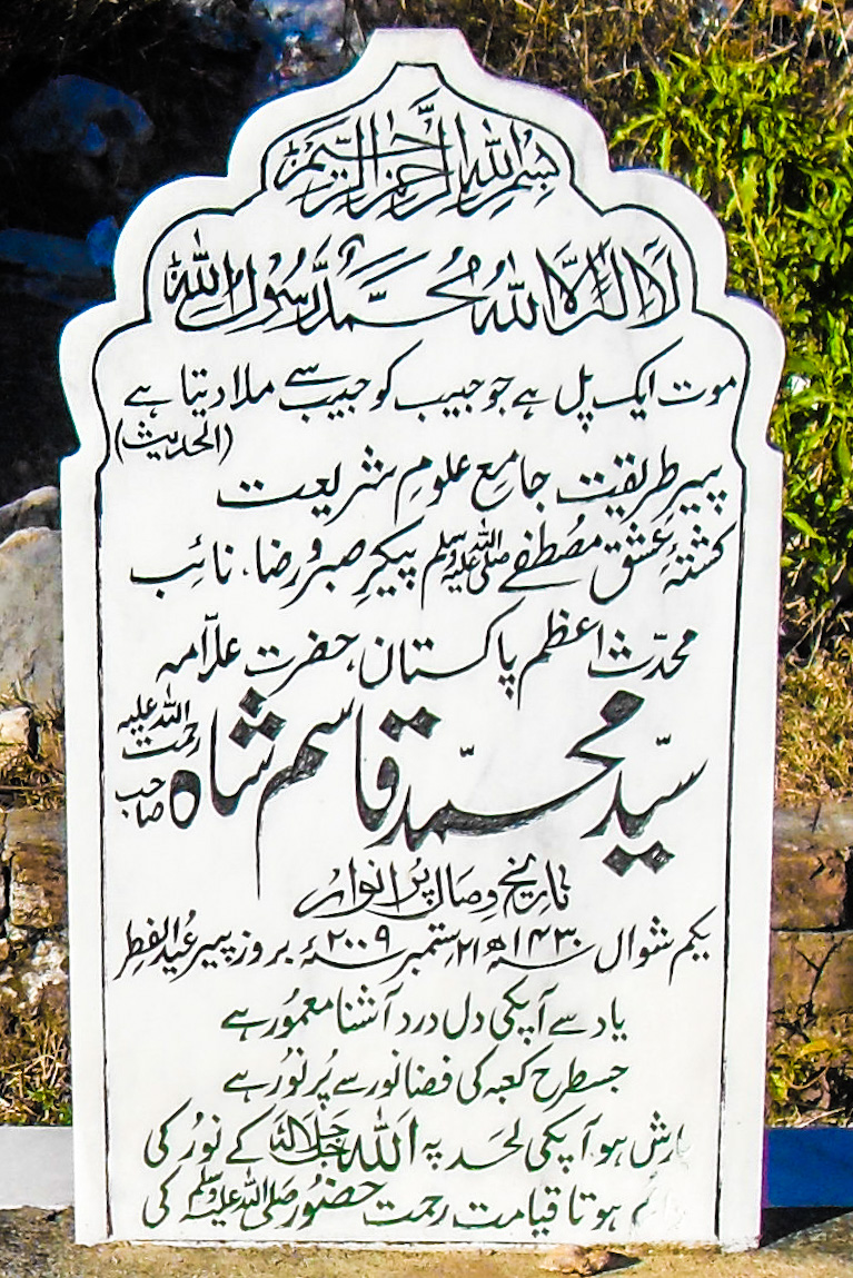 Katba e mazar